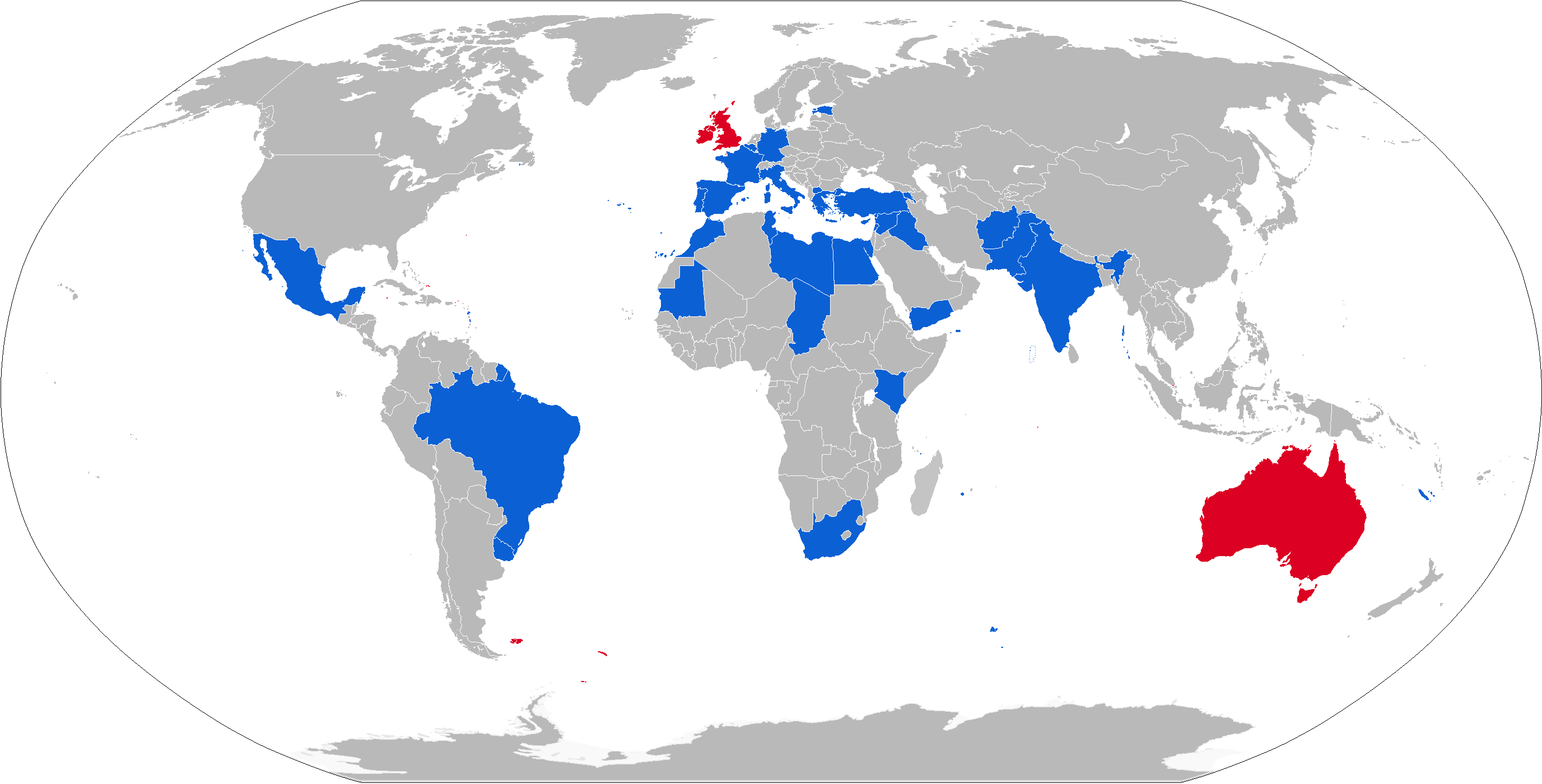 Map with MILAN operators in blue and former operators in red